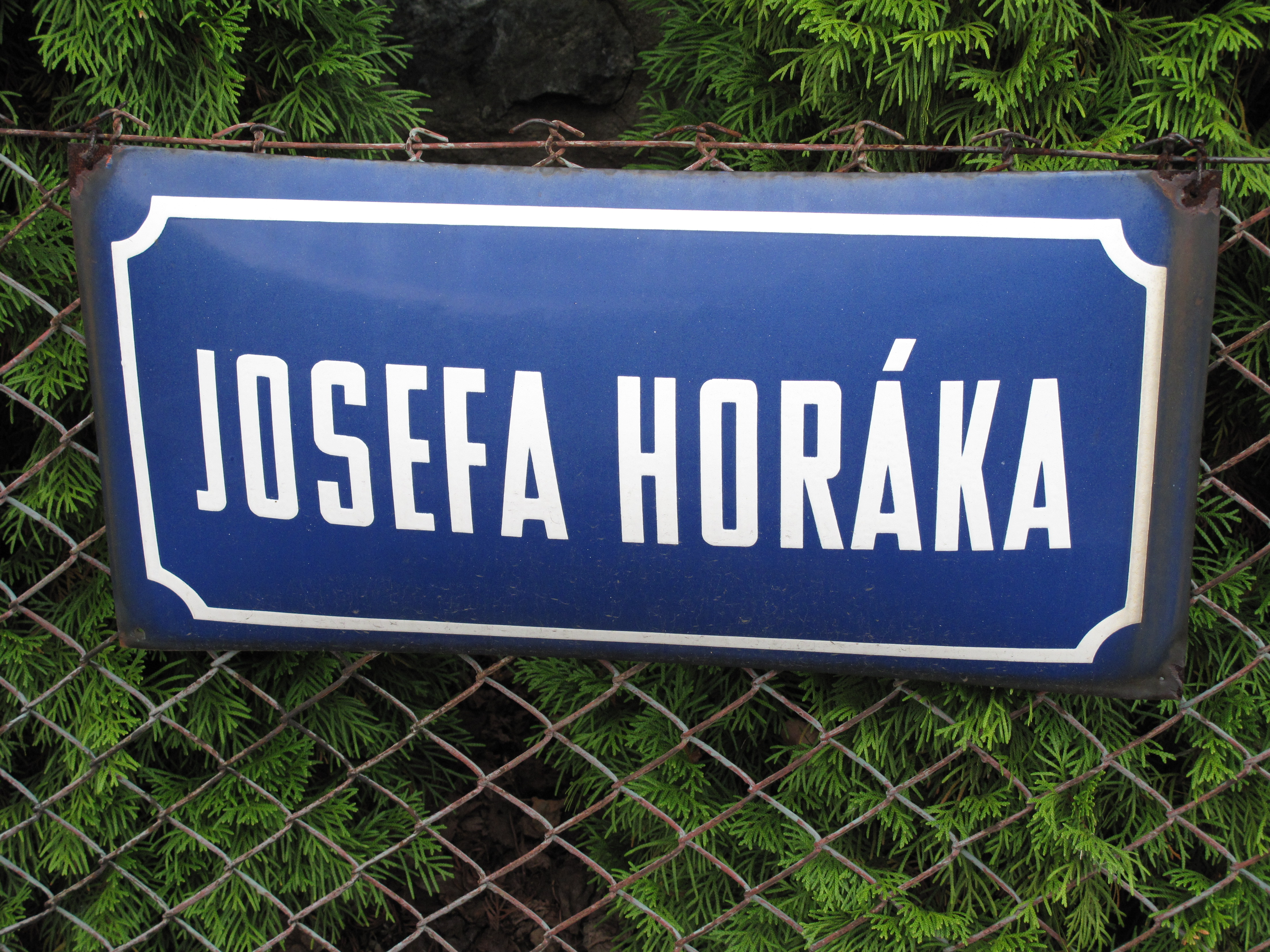 Street sing: Josefa Horáka, Lidice, Czech Republic.